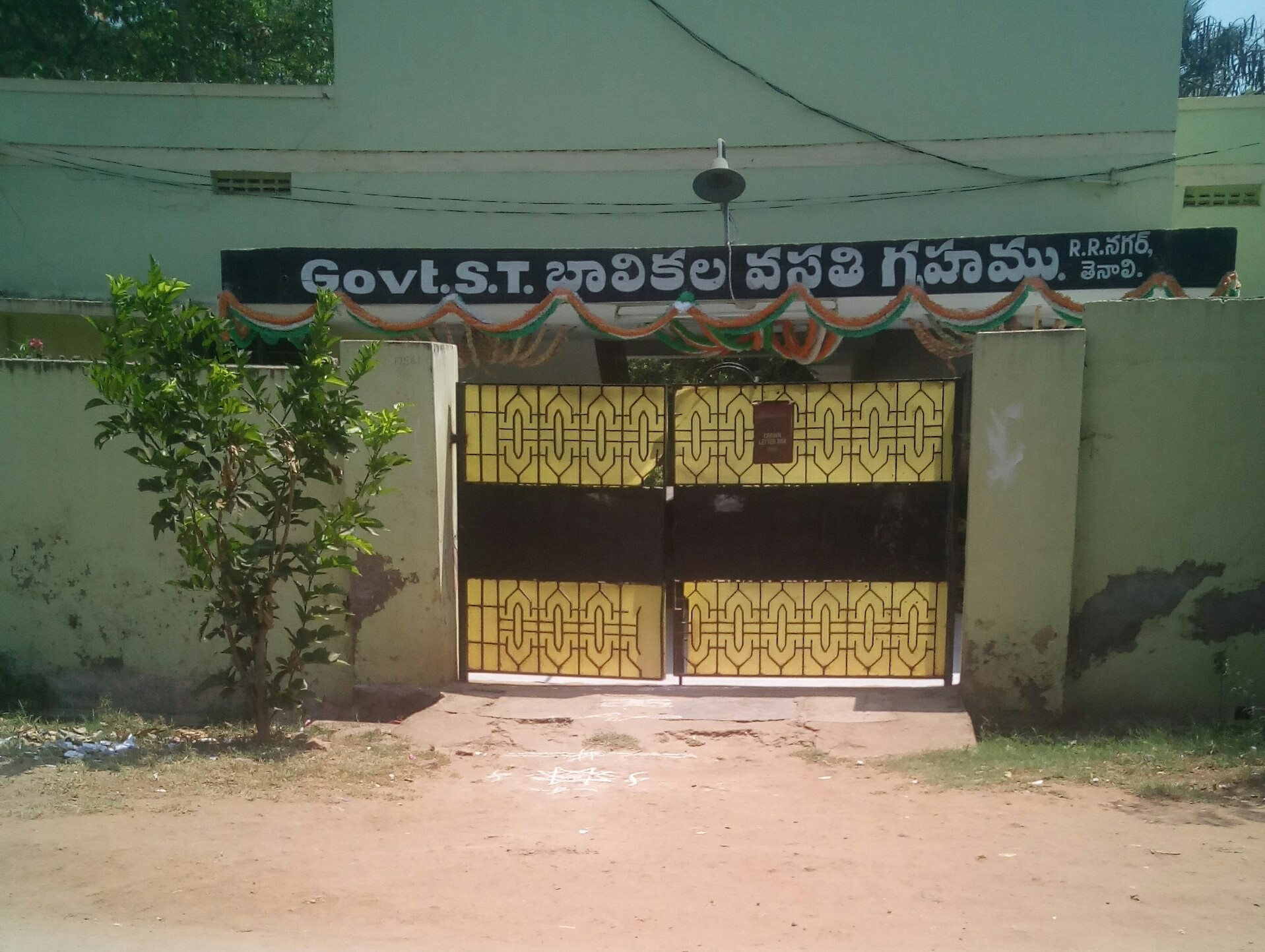 Government Scheduled Tribes Girls Hostel at R.R.Nagar in Tenali